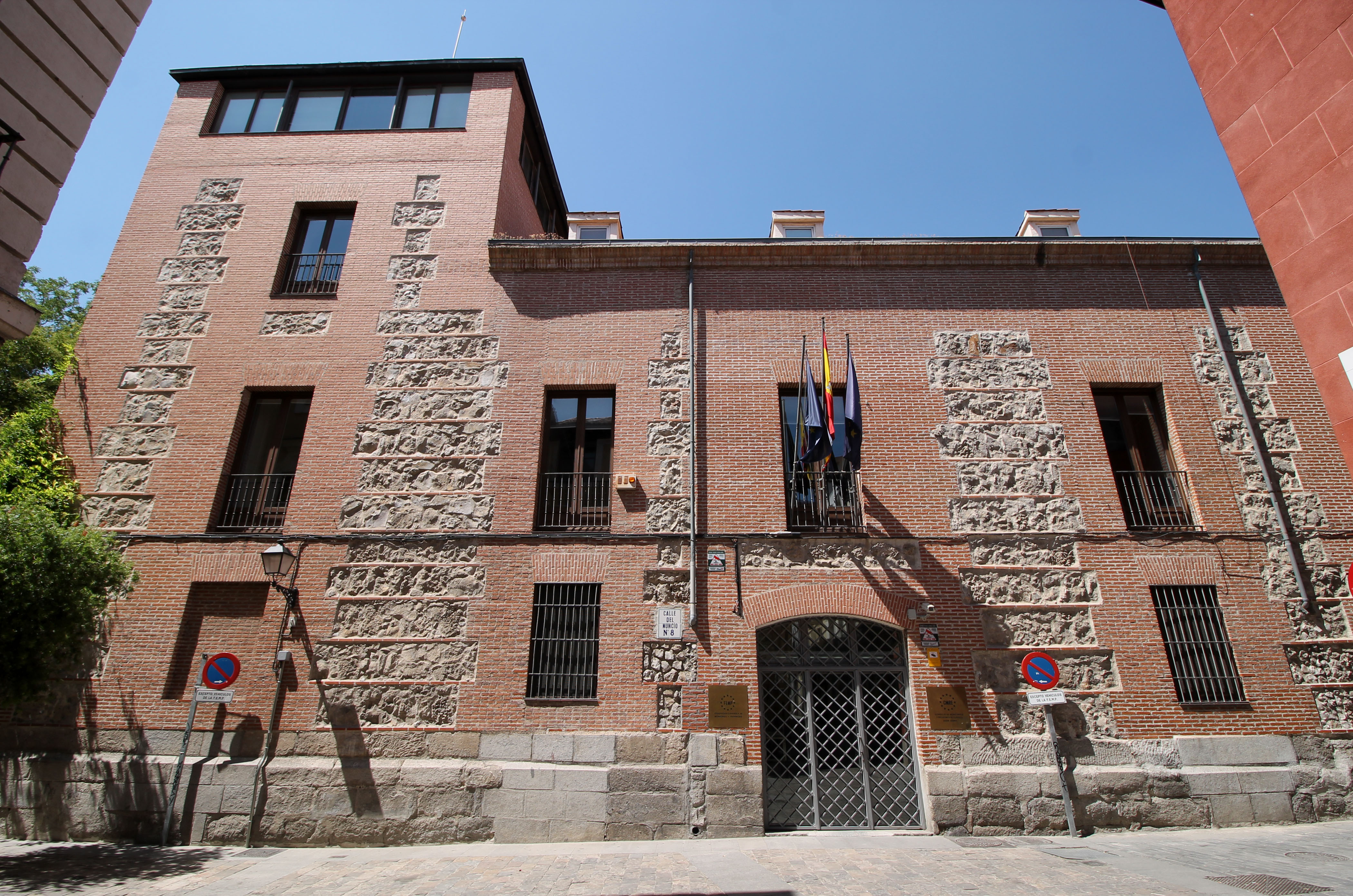 Home of the Spanish Federation of Municipalities and Provinces (FEMP) at 8 Calle del Nuncio (street) in Madrid. Building was made between 1575 and 1600 as a mansion.